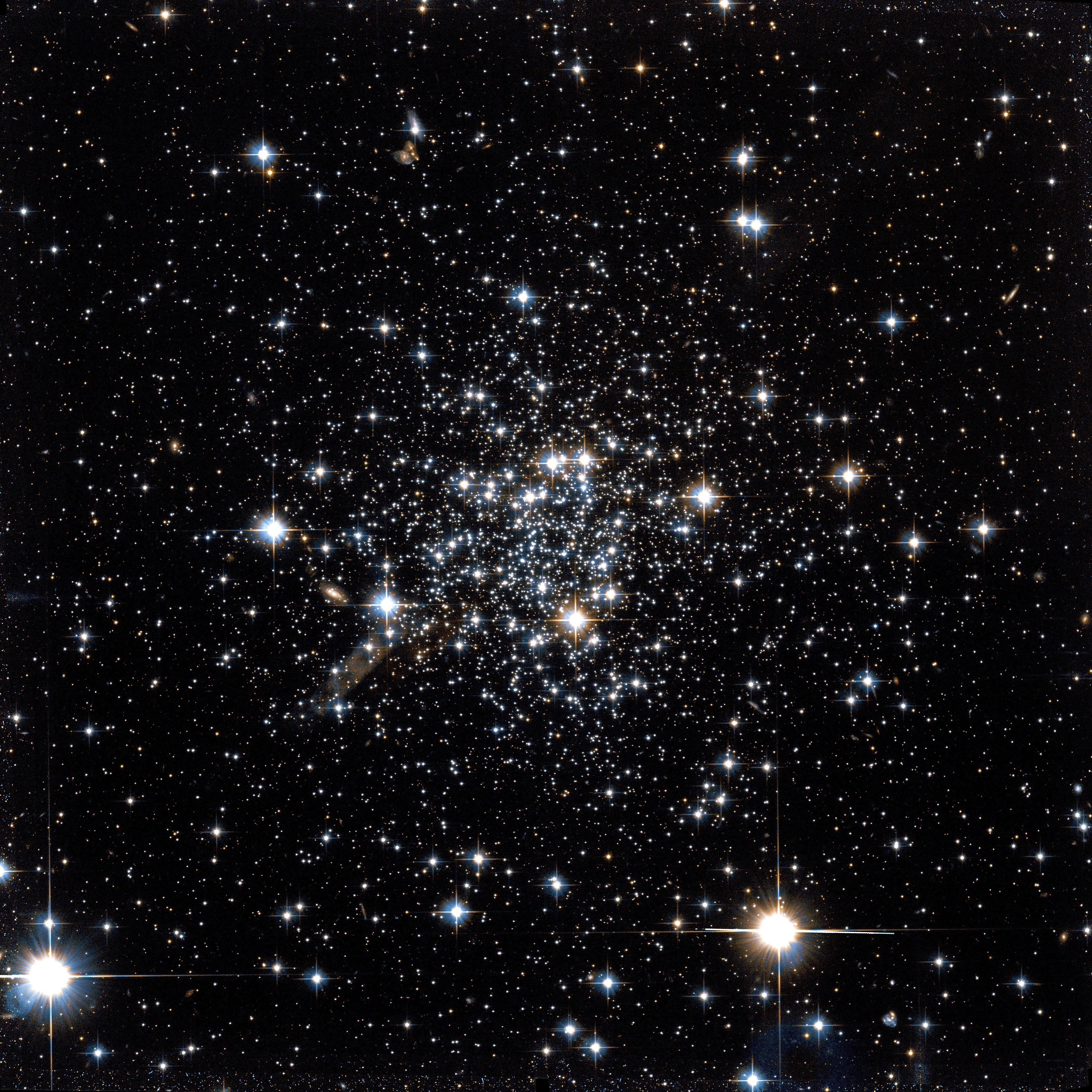 Terzan 7 globular cluster by Hubble Space Telescope; 3.5′ view